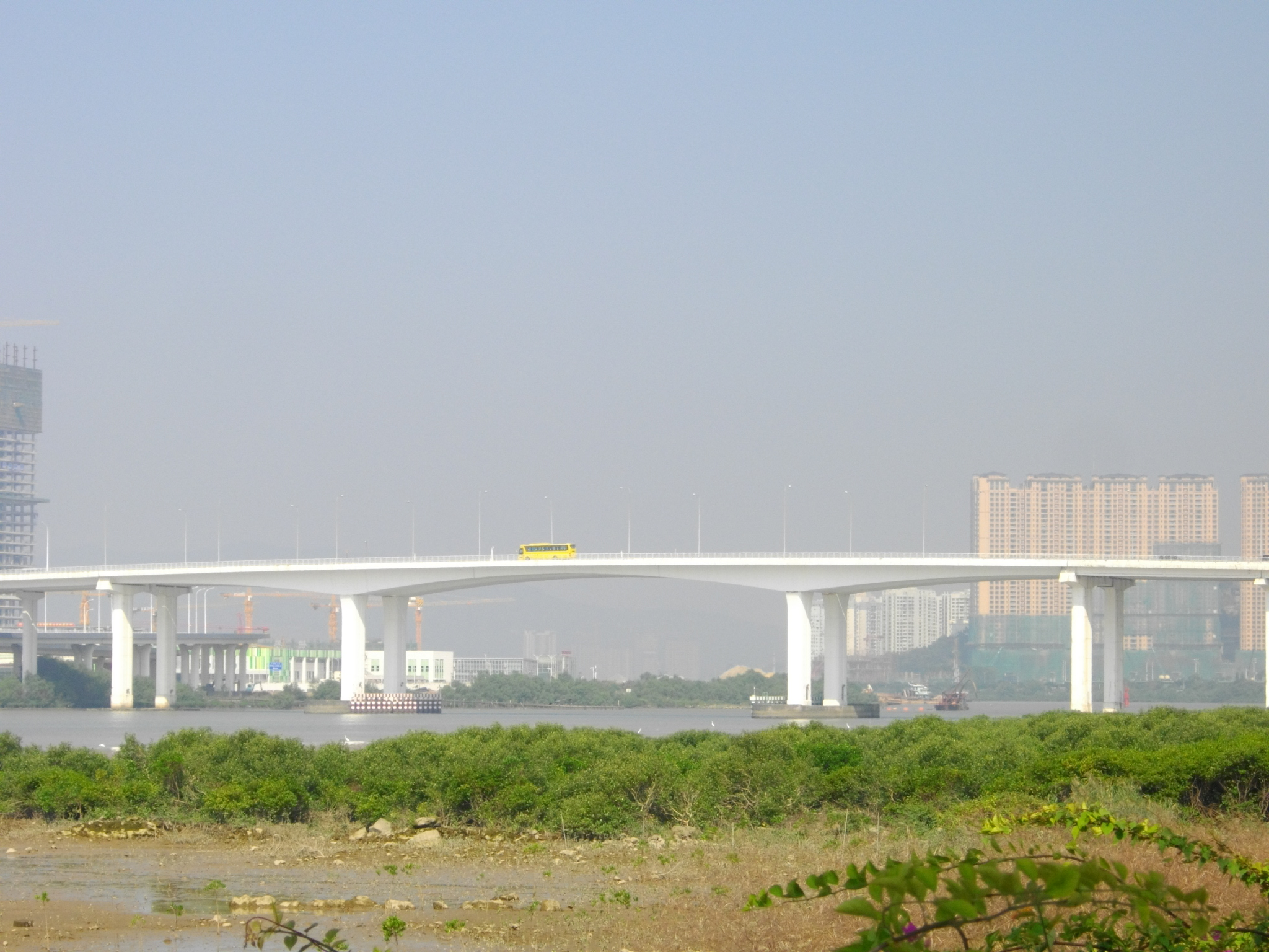 Lotus Bridge